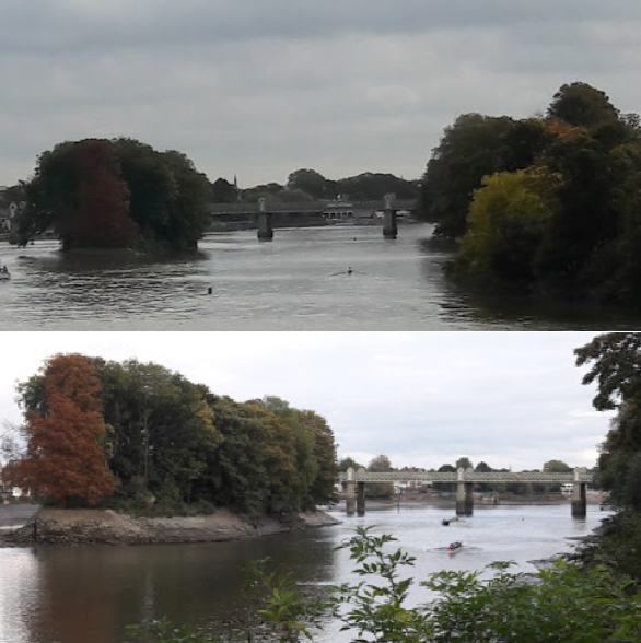 Tide on the Thames